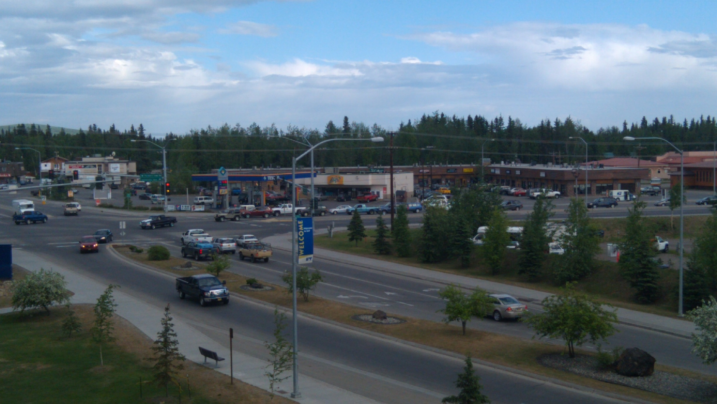 Taken on the side of the hill which houses the University of Alaska Fairbanks, at the intersection of College Road and University Avenue. This intersection, along with the surrounding Shanly Subdivision in the background, forms the historic and commercial heart of College, Alaska, a census-designated place adjacent to Fairbanks. In the foreground in Alumni Drive, the main entrance to UAF, which follows the alignment of the old Ester Road and the old Fairbanks-Nenana Highway.